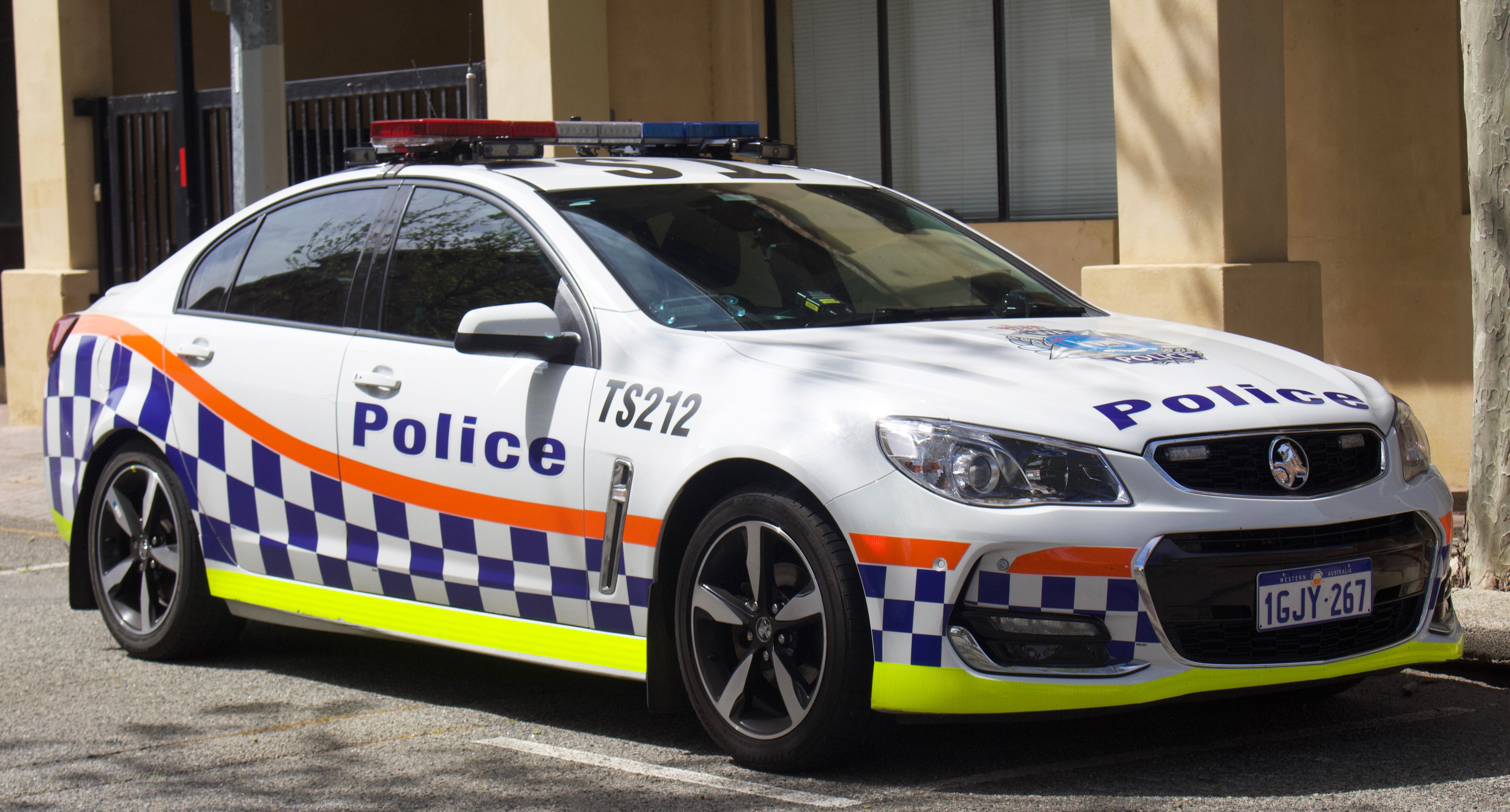 2017 Holden Commodore (VF II MY17) SV6 sedan, Western Australia Police. Photographed in Fremantle, Western Australia, Australia.